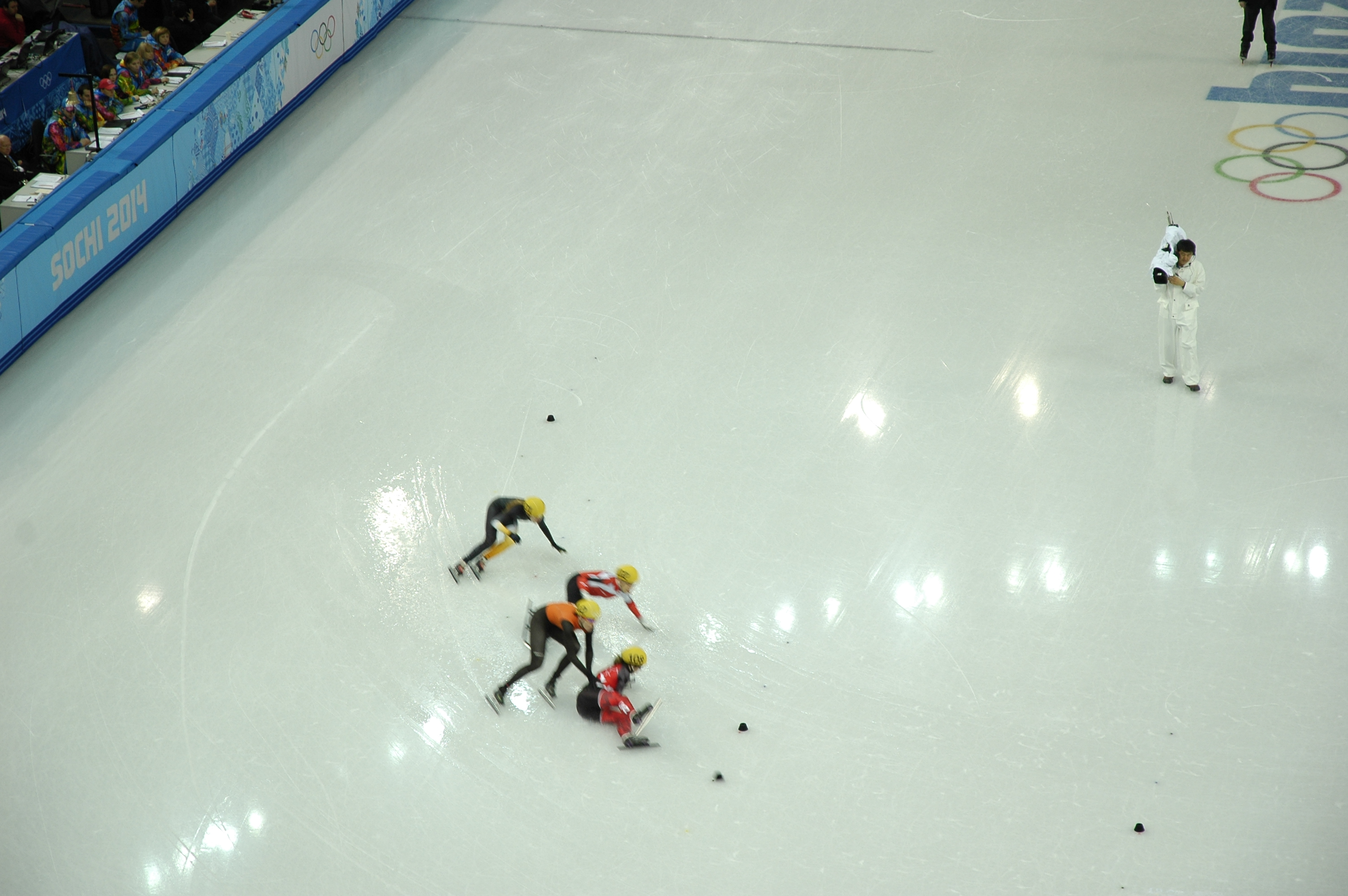 Women's 1000m short track speed skating, 2014 Winter Olympics, heat 8 1 Deanna Lockett Australia 1:34.845 Q 2 Veronika Windisch Austria 1:36.018 Q 3 Jorien ter Mors Netherlands 1:46.661 ADV 4 Marianne St-Gelais Canada 2:05.206